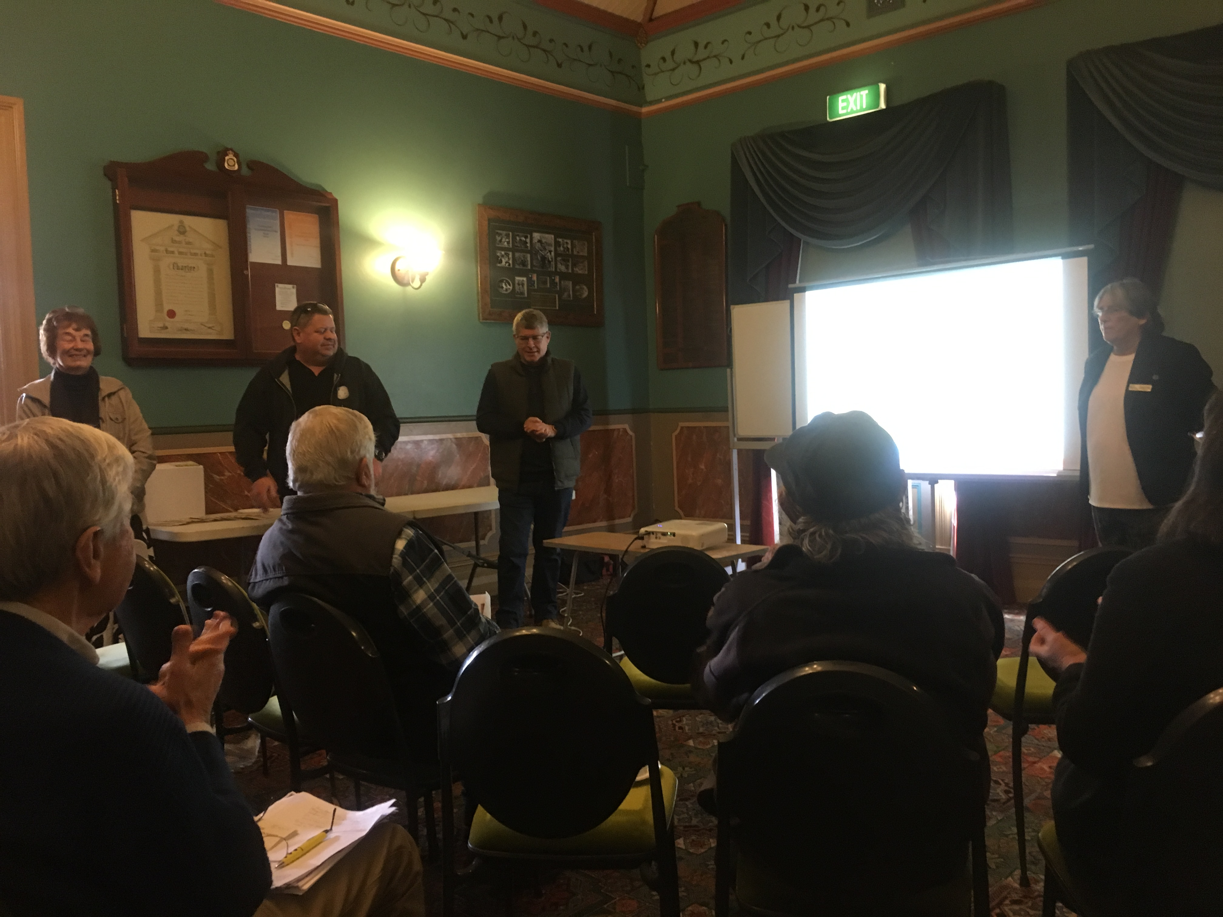 Toodyaypedia in 2019 - the launch of stage 3 - joint project between Wikimedia Australia, Shire of Toodyay, and Toodyay Historical Society supported by Lotterywest